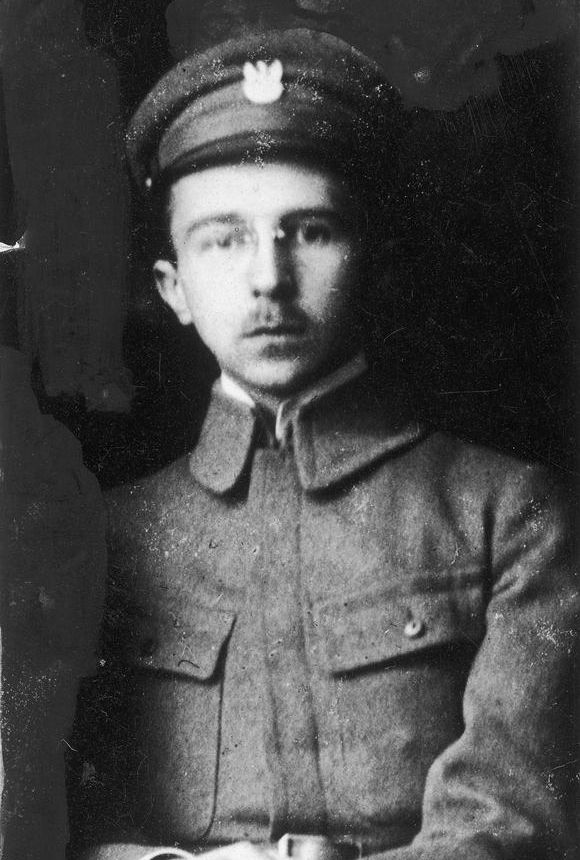 Adam Koc as a member of Polish Legions.